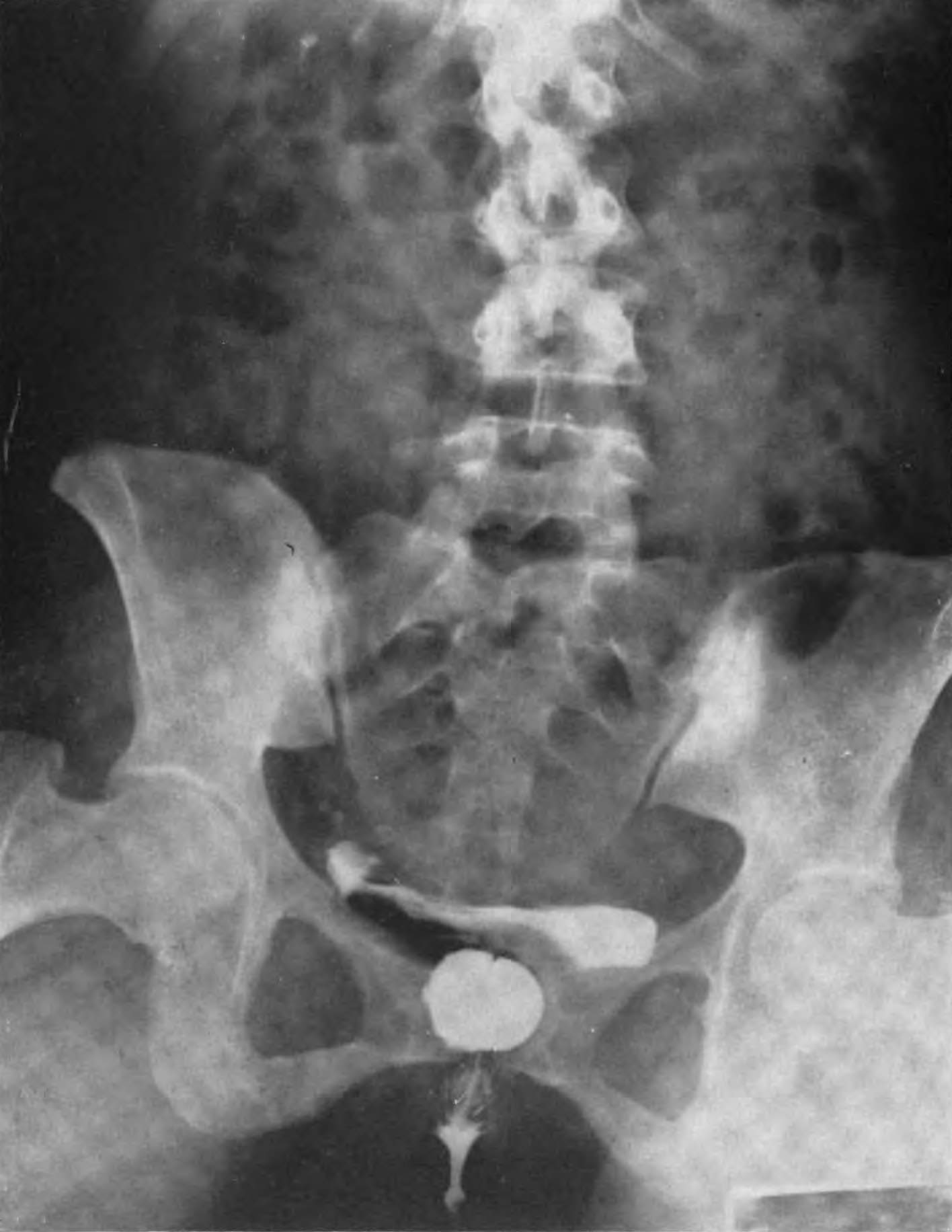 Clinical Urology